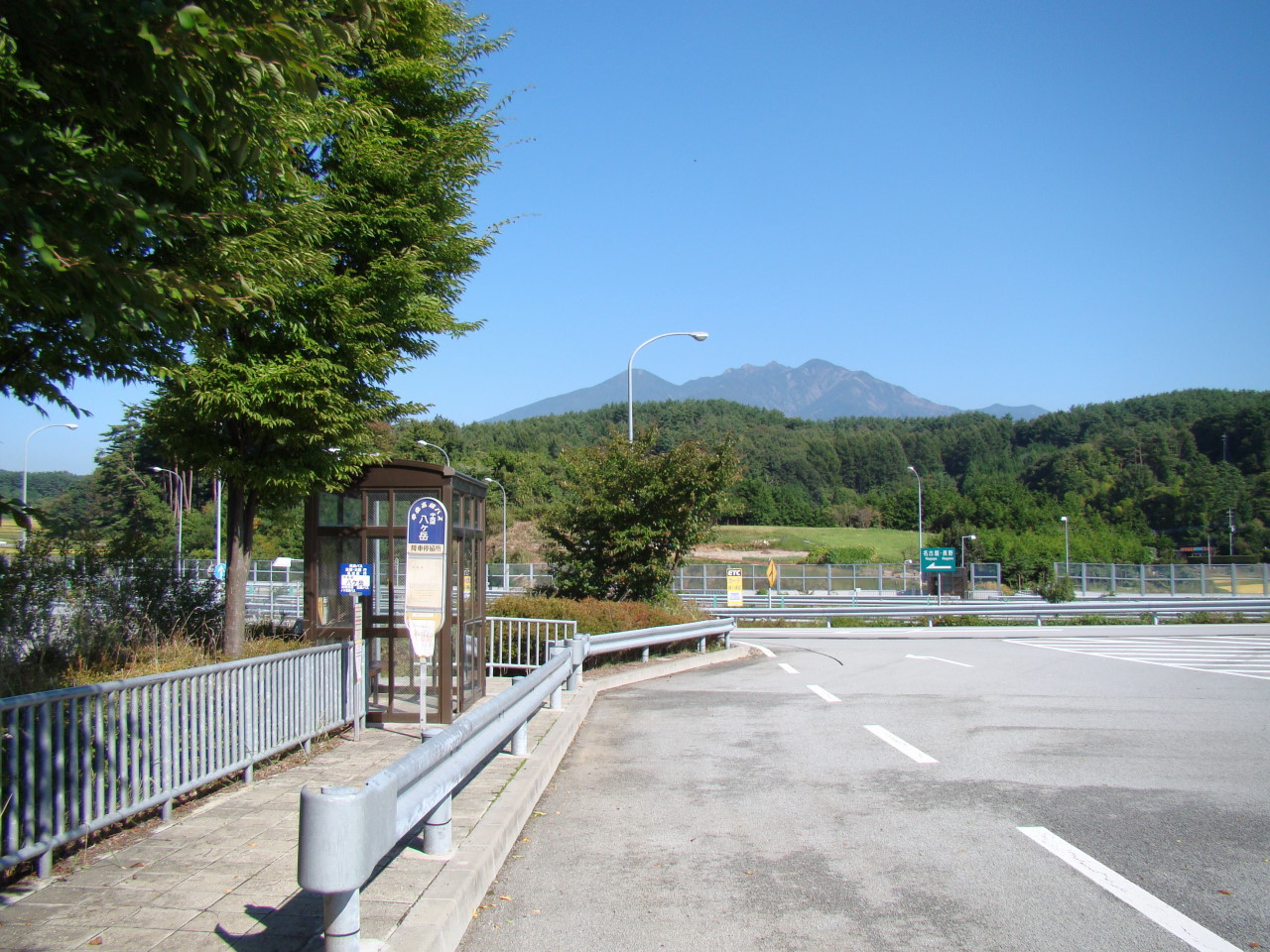 Yatsugatake Bus Stop for Nagoya on the Chuo Expressway in Yamanashi Prefecture, Japan